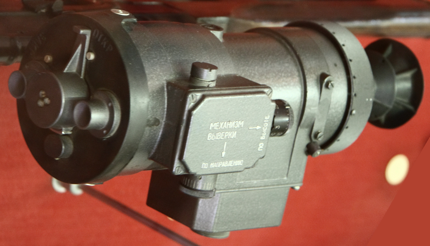 NSPU-3 (1PN51) night sight. The lever on the aperture cover is set to open